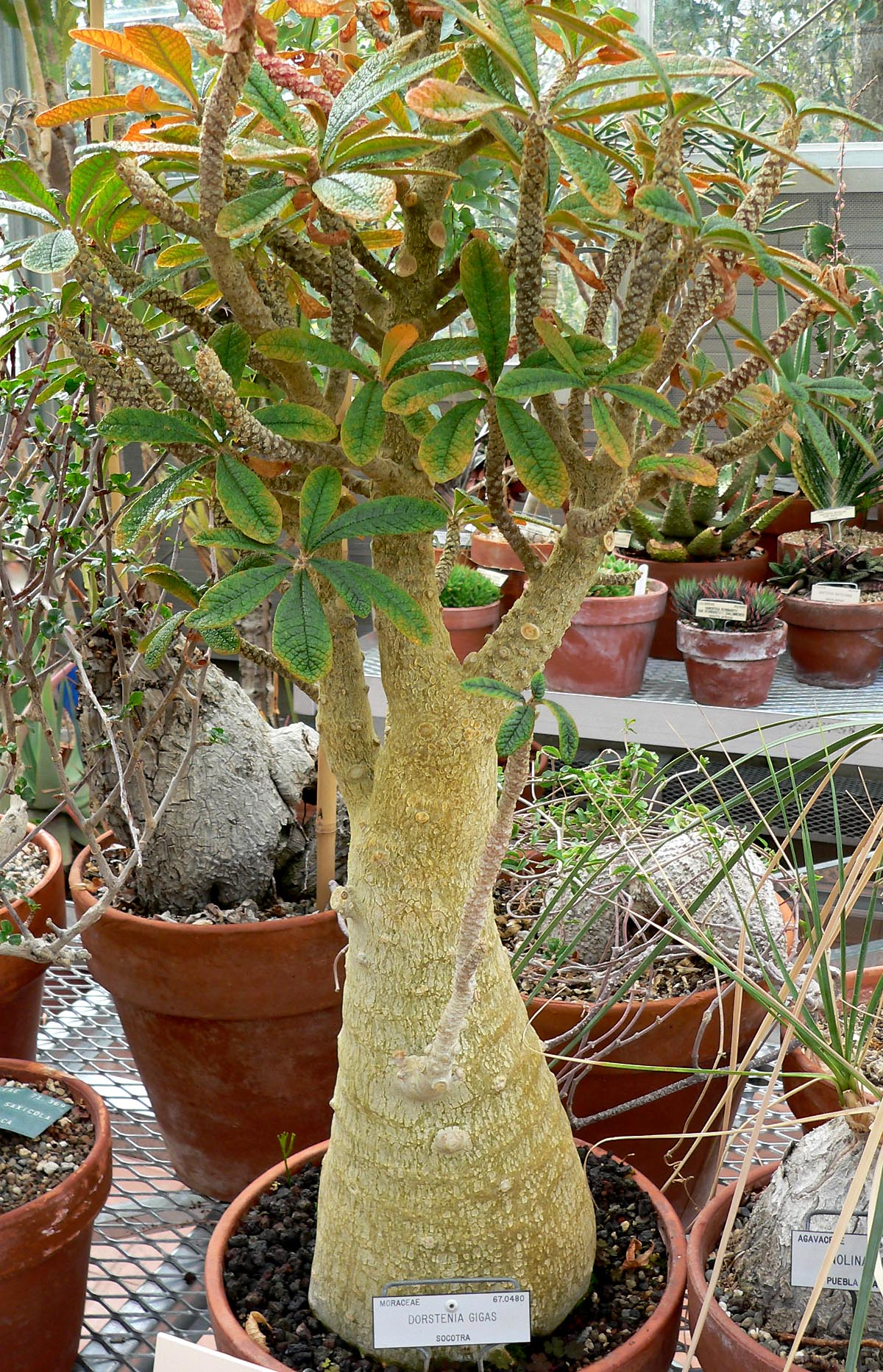 Photo of Dorstenia gigas at the University of California Botanical Garden